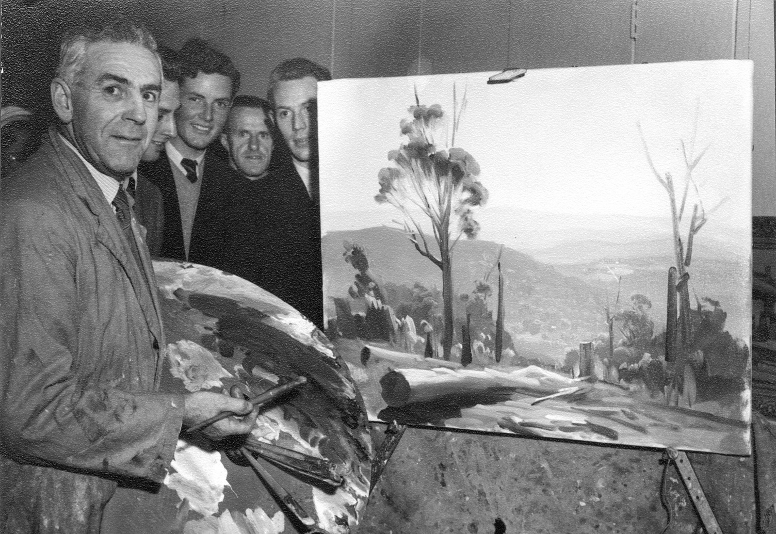 Australian artist Ernest Buckmaster giving a painting lesson c 1950.